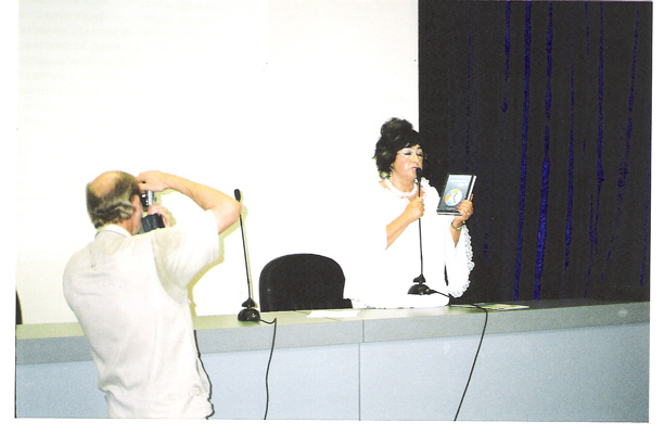 Book presentation of Larisa Matros